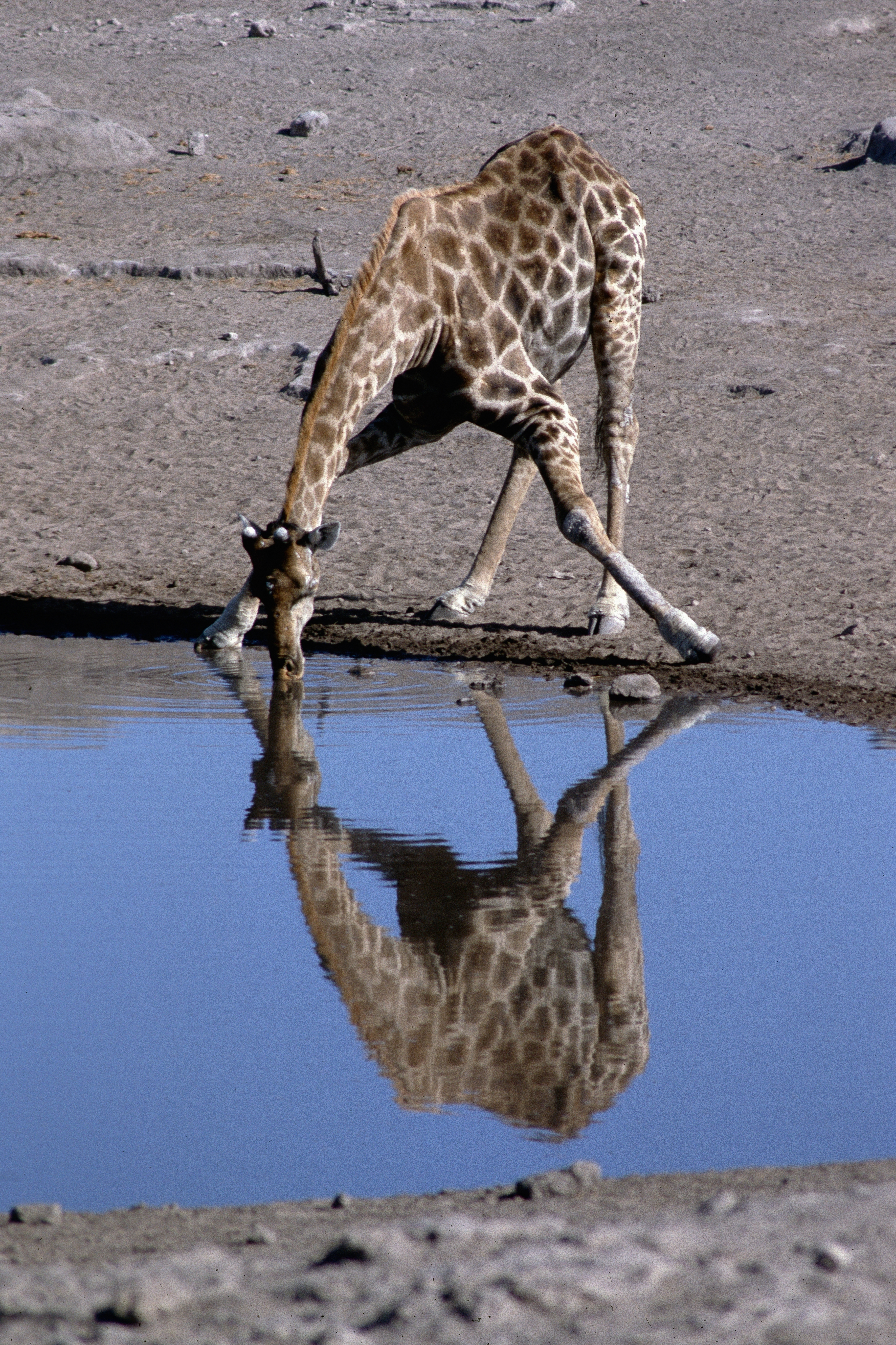 giraffe (Giraffa camelopardalis)on Chudop waterhole, Etosha